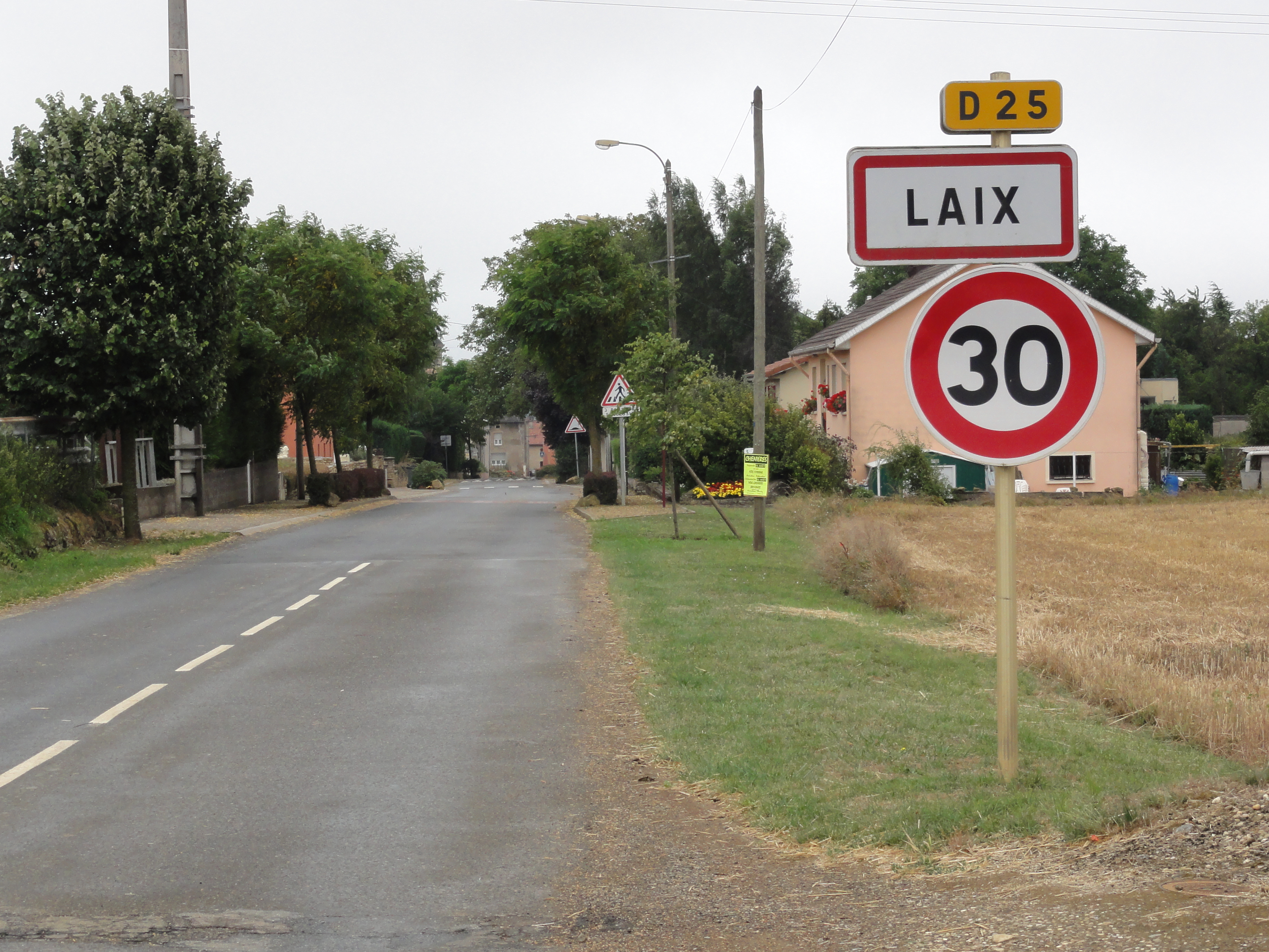 Laix (Meurthe-et-M.) city limit sign